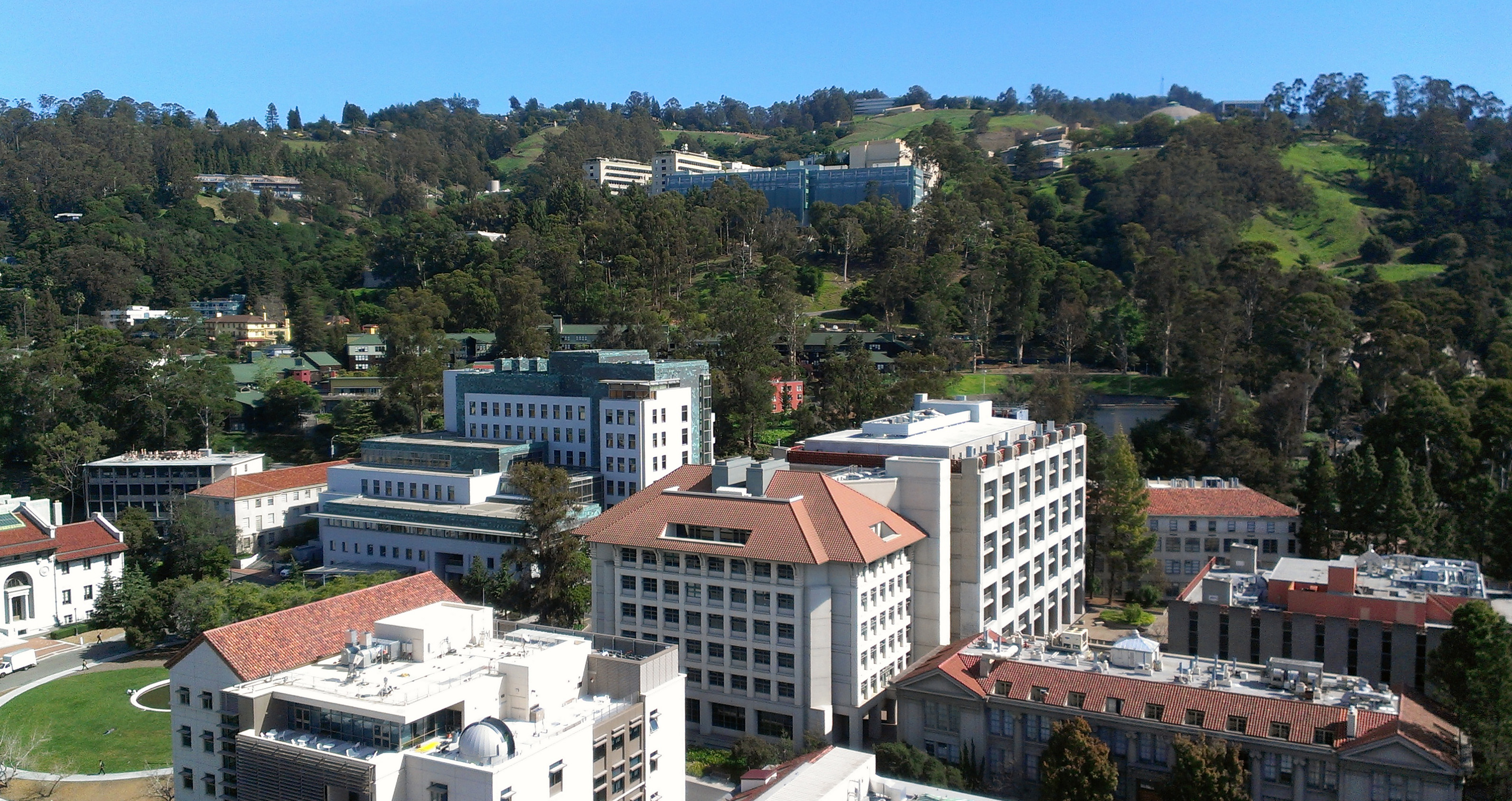 UC Berkeley Campus - view from Sather Tower of Stanley Hall, College of Chemistry, and Lawrence Berkeley Lab (LBL)